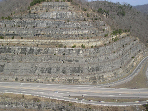 The Pikeville Cut-Through in Pike County, Kentucky